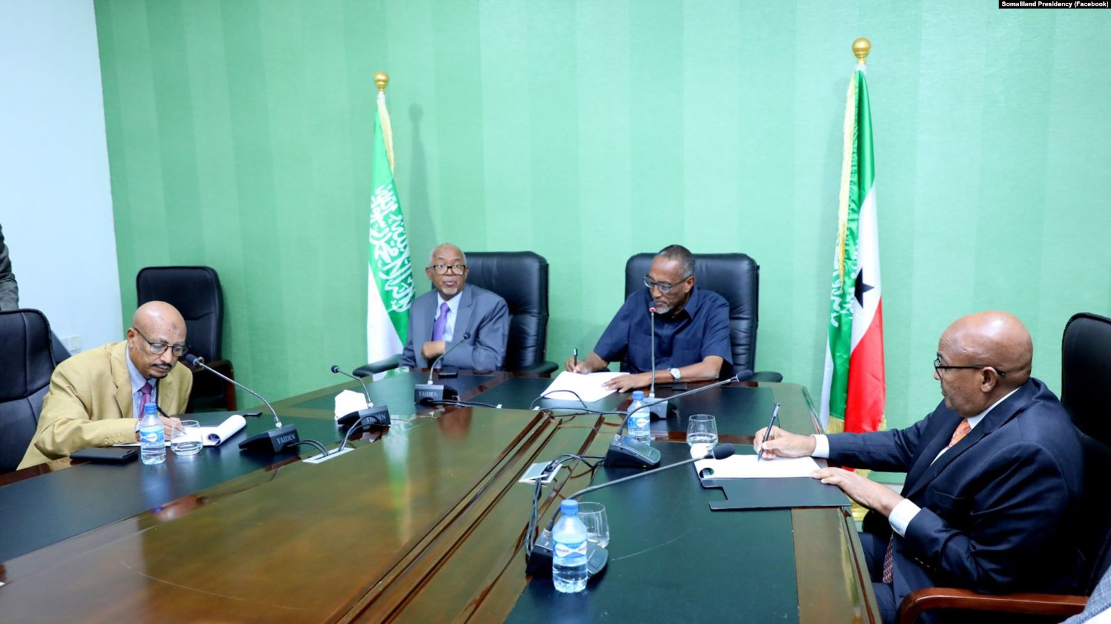 Somaliland party leaders sign electoral agreement